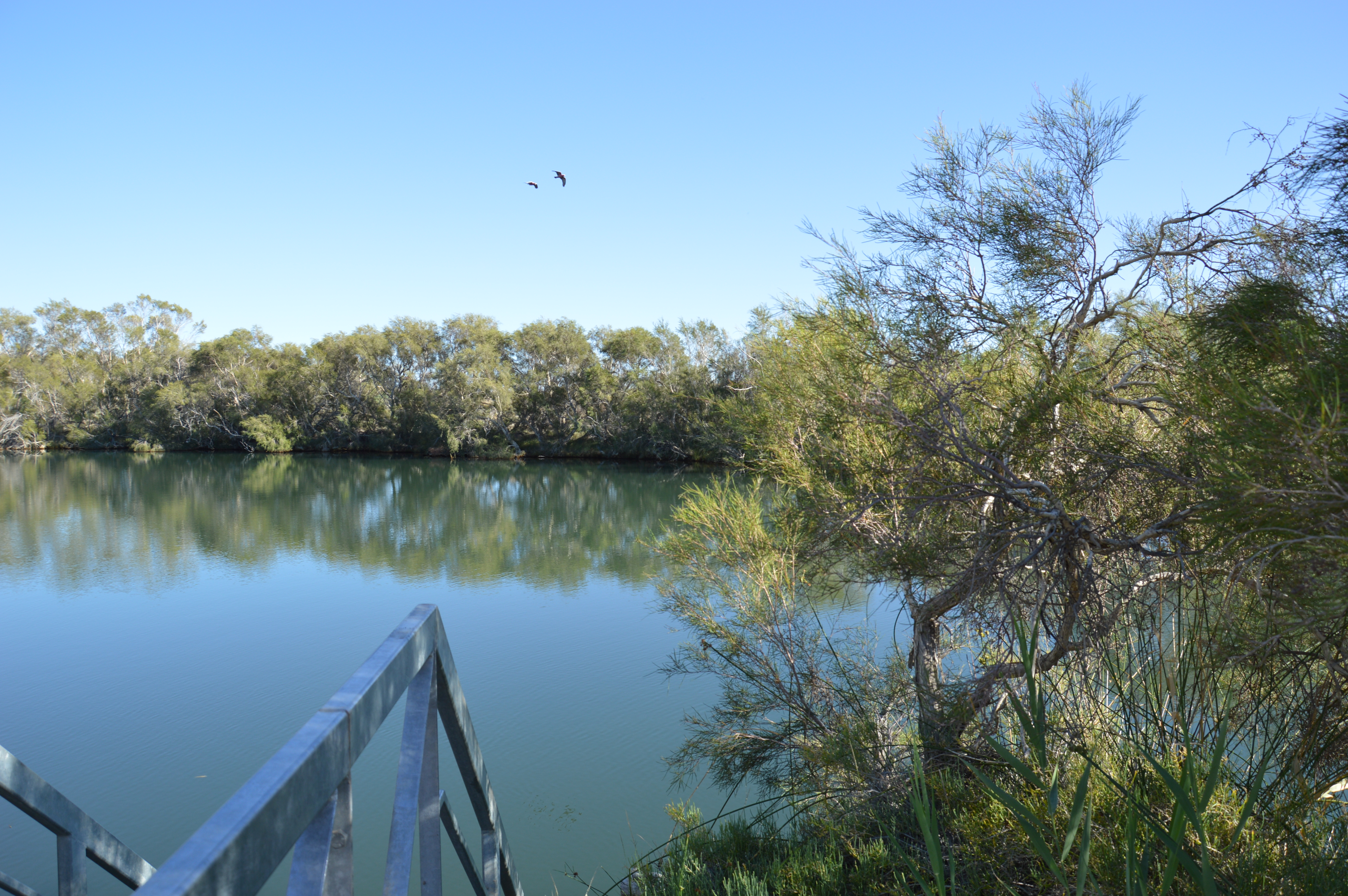 Witjira National Park where Great Artesian Basin water bubbles to the surface - its nice and warm at 40 degrees Celsius.